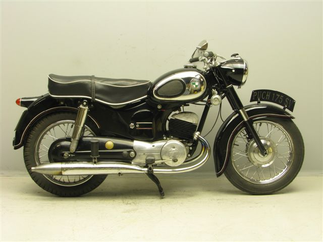 Puch motorcycle Model 175 SV from 1962.